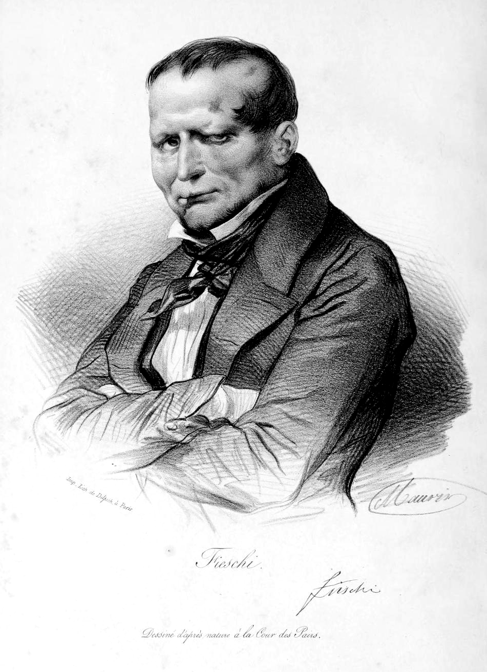 "Drawn live at the Cour des Pairs". Extracted from the book Attentat du 28 juillet, 1835, posted at . Cropped, lightened and converted to grayscale.